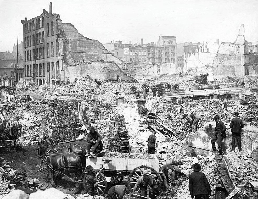 Front Street after the Toronto Fire of April 19, 1904. Archives of Ontario (I0006700) Photographer unknown Black and white print Edwin C. Guillet collection This photograph was created in Canada before 1949, and is thus in the public domain in Canada.